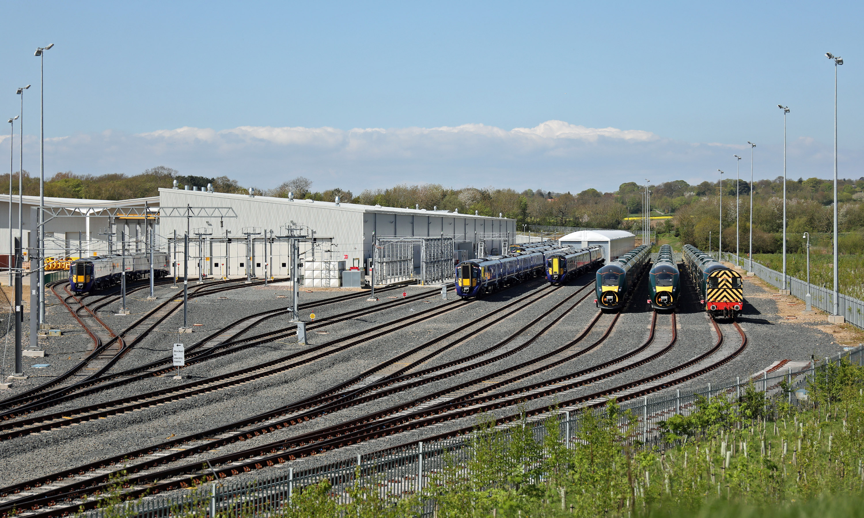 New trains outside Hitachi's Newton Aycliffe facility; Class 385;s fill the yard with three GWR 800/3 sets on the right with an 08 shunter